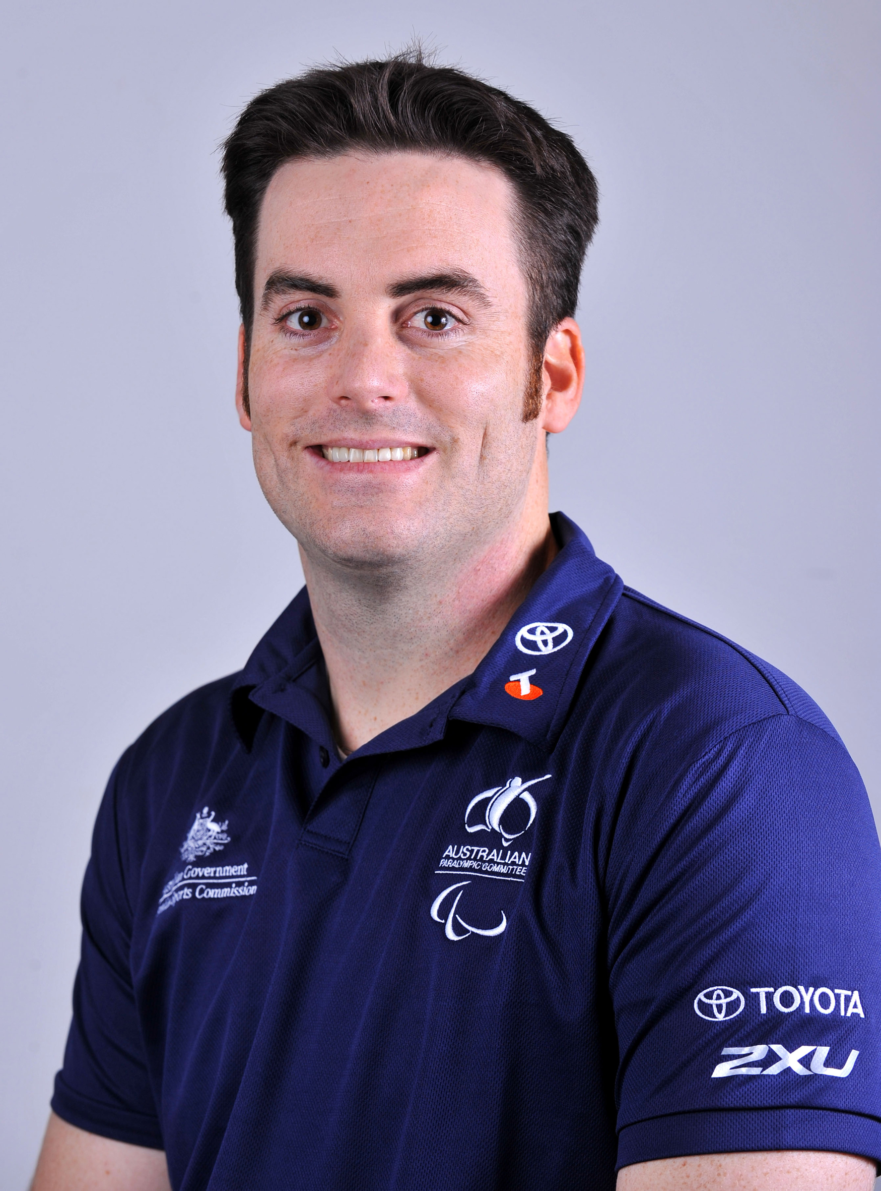 Portrait of Australian wheelchair basketballer Nick Taylor, 2012 Australian Paralympic (shadow) Team athlete